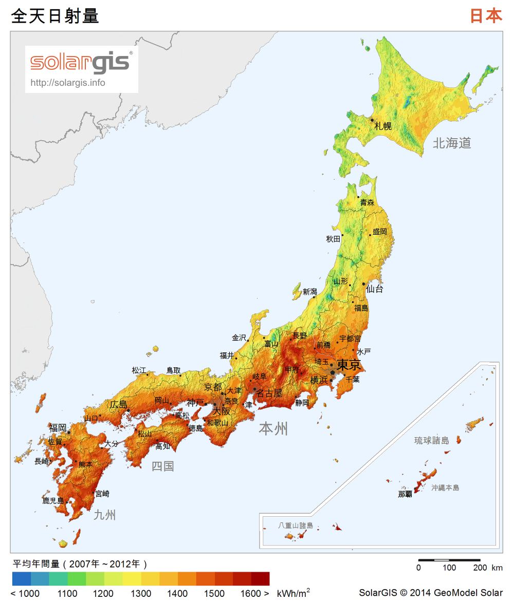 Solar Radiation Map: Global Horizontal Irradiation Map of Japan, SolarGIS.Japanese Version.